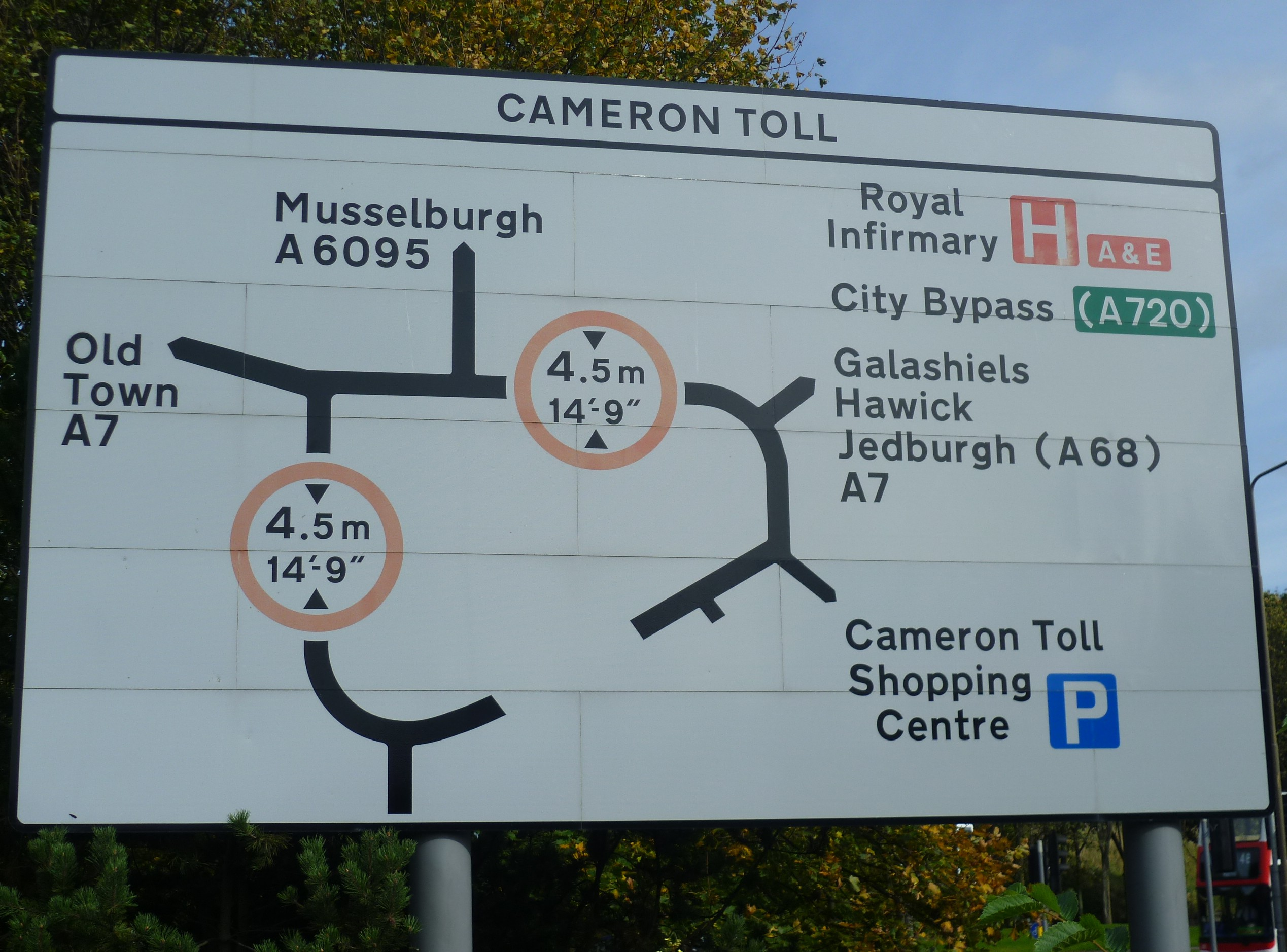 Road sign at Cameron Toll roundabout, Edinburgh